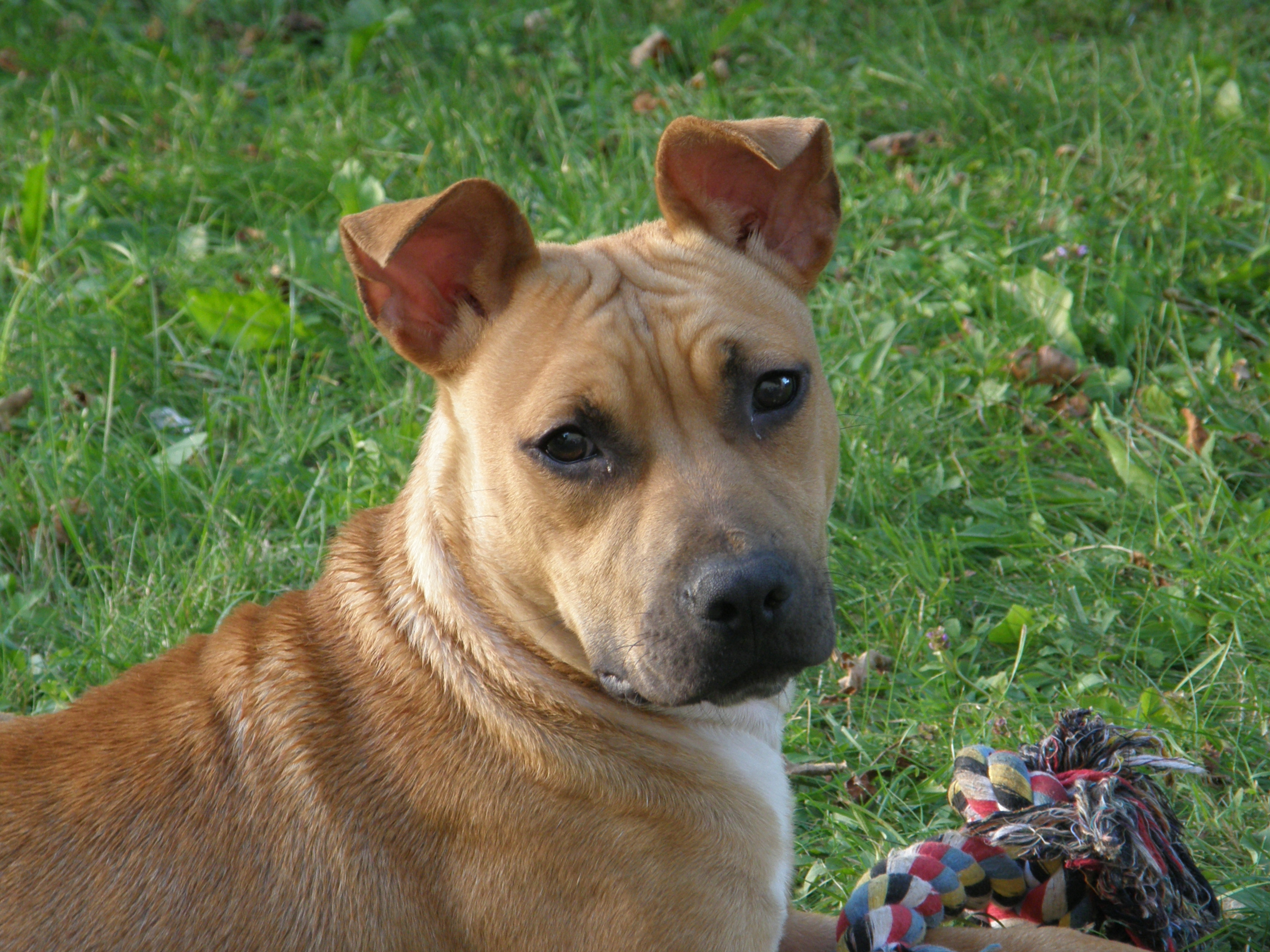 8 months old American Staffordshire terrier